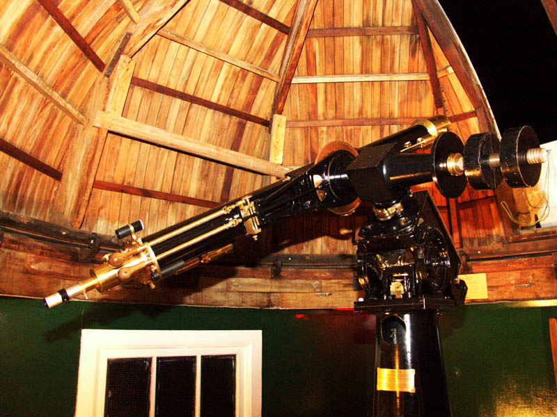 Thomas King Telescope at Carter Observatory, The National Observatory of New Zealand, photo by Paul Moss